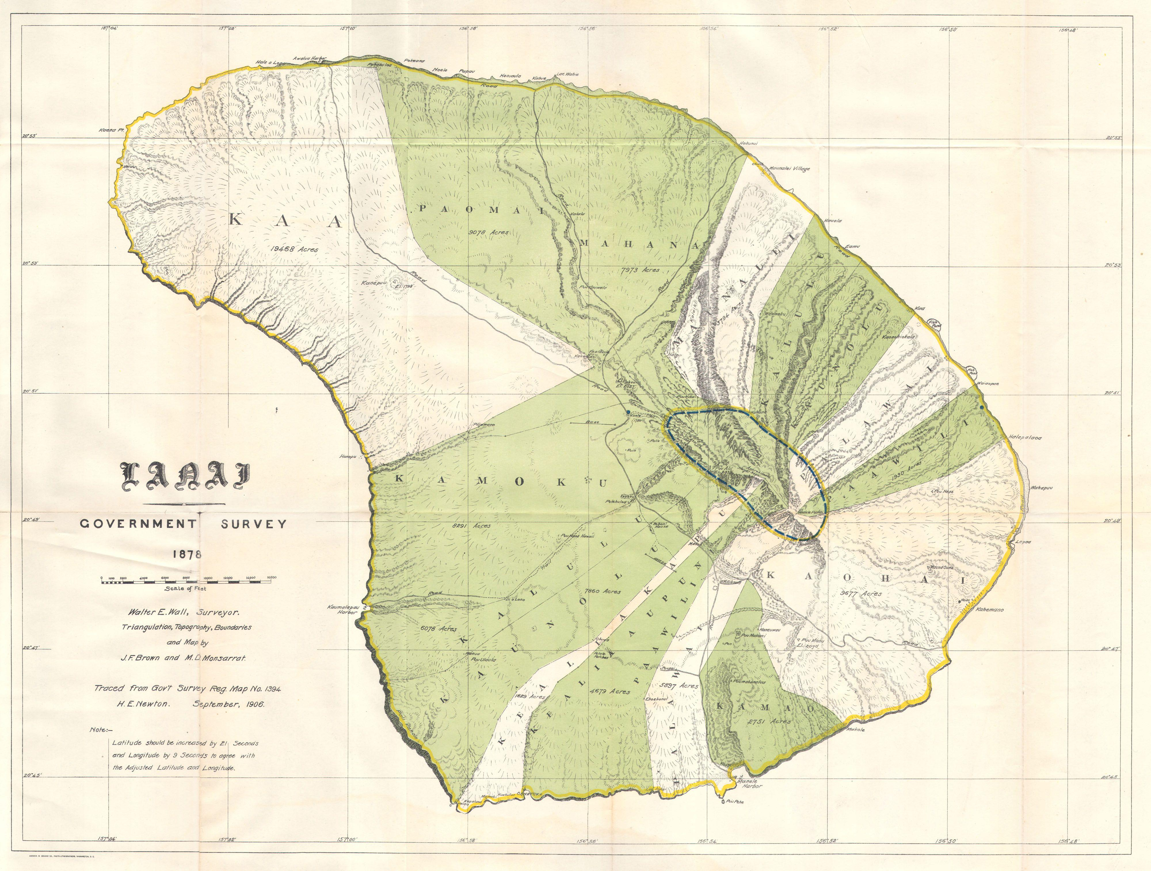 This rare and extraordinary 1878 map of the island of Lanai, in the Hawaiian group, was prepared for the 1906 Report of the Governor of the Territory of Hawaii to the Secretary of the Interior. Though the cartographic work that produced this map was started in 1878, during the Hawaiian Monarchy, the map itself, and the report that contained it, was issued following the U.S. Government’s 1898 annexation of the Hawaiian Republic. The Report was an attempt to assess and examine the newly created Hawaiian Territory’s potential for proper administration and development. Consequently the map focuses on Public Lands, Homestead Settlement Tracts, Grazing Lands, Pineapple Lands, Sugar Plantations, Forest Reserves, Forest Lands, Wet Lands, etc. It also features both practical and topographic details for use in administering the region. The governor at this time was George R. Carter. The primary triangulation for this map was accomplished by J. F. Brown and M. D Monsarrat. The survey work was done by Walter E. Wall. This map is heavily based upon the H. E Newton Government Survey Regional Map No. 1394.